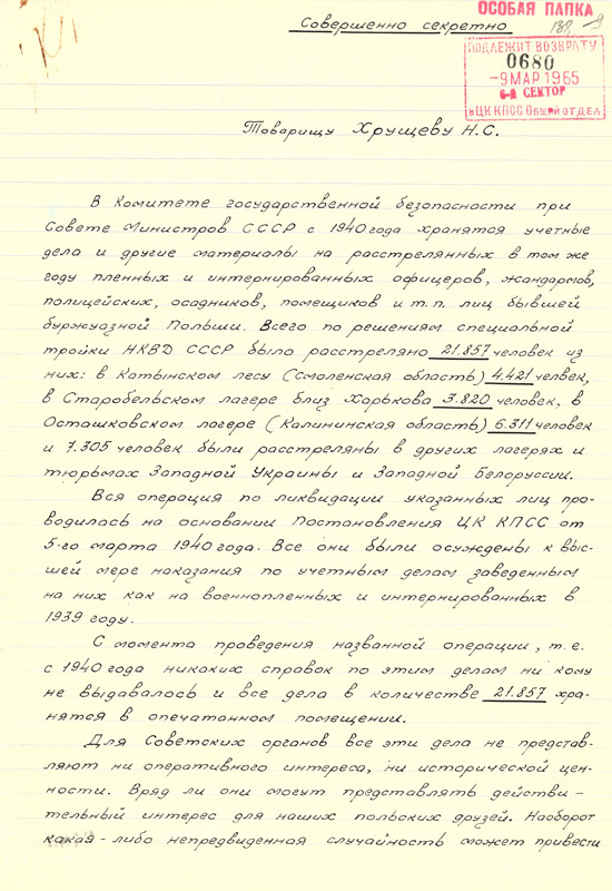 A memo from head of KGB Alexander Shelepin to Nikita Khrushchev about the liquidation of all case records of Polish nationals executed in 1940 with an attached project of a Presidium resolution. Handwritten.